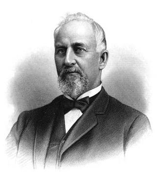 Ammi Williard Wright, lumberman from Alma MI